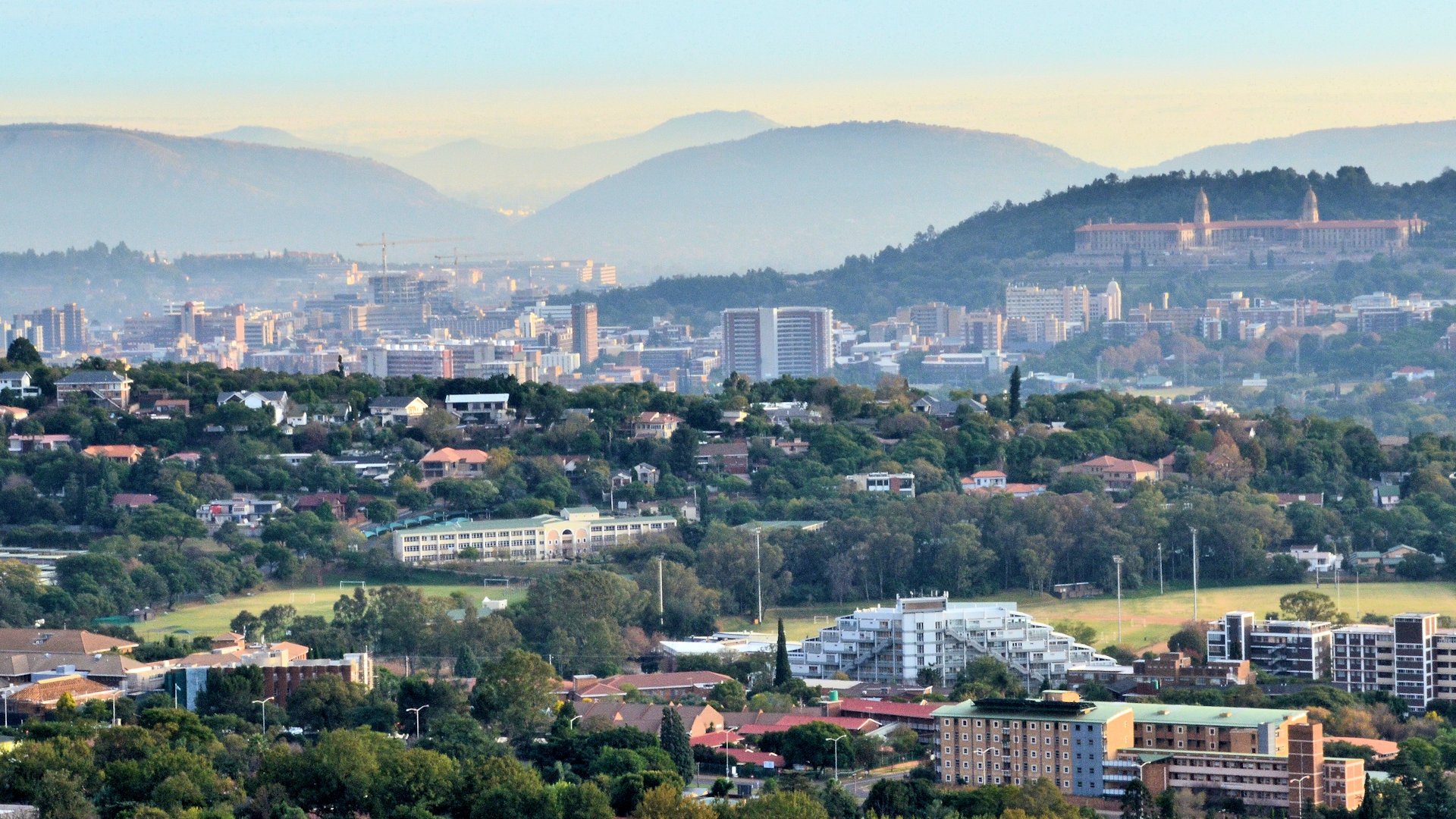 Lukasrand (in the middle) with Groenkloof in front and Arcadia in the background